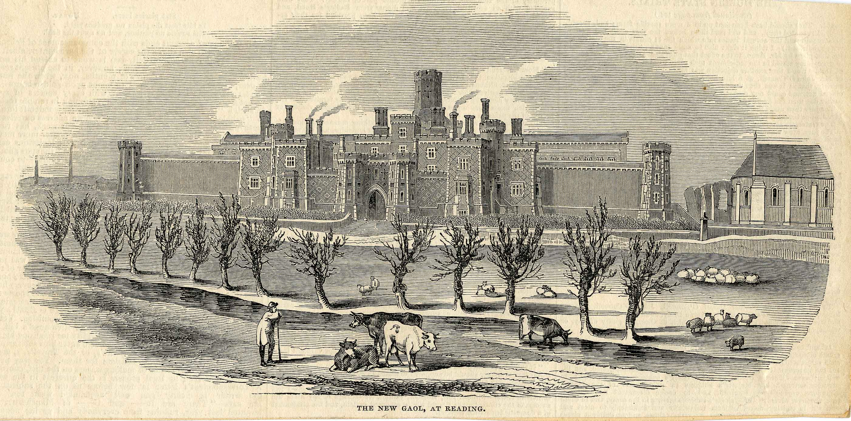 Print of Reading Gaol in 1844